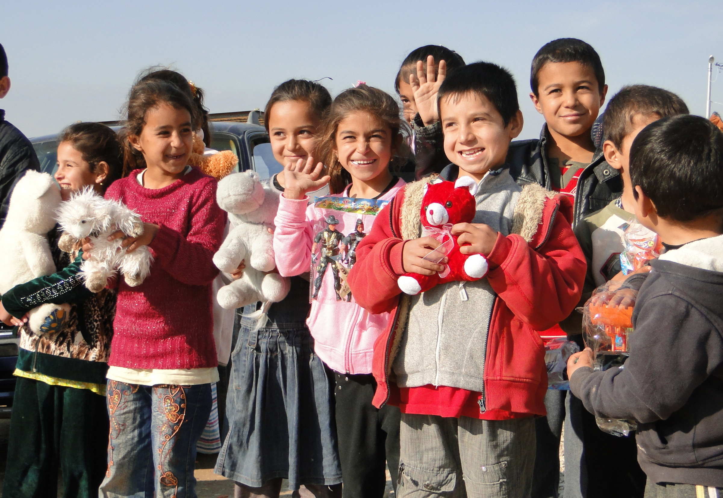 Defend International and its supporters provided humanitarian aid to Yazidi refugees in Kurdistan region, Iraq. Thanks to our donors!